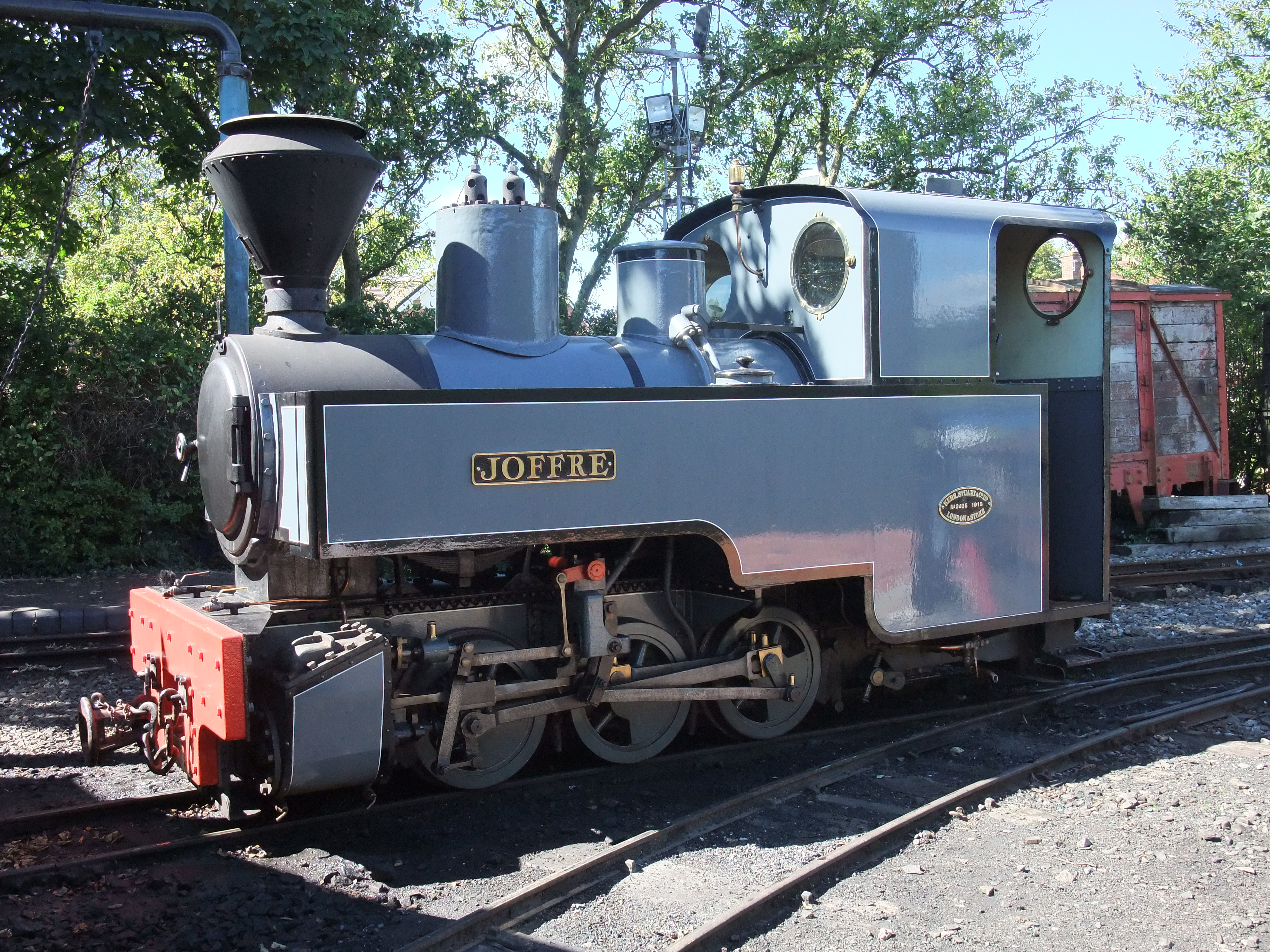 Kerr, Stuart and Co. locomotive number 2405, Joffre at WLLR